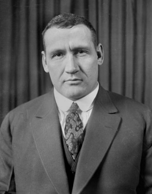 Photo of professional wrestler John Olin in Chicago in 1917.